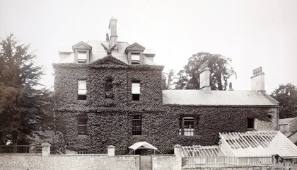 File: Photograph by Colonel Blathwayt. He was the father of Mary Blathwayt and they lived at Eagle House in Somerset. The pictures were taken between 1909 and 1911